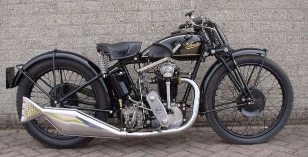 1929 Velocette KN 350 cc motorcycle